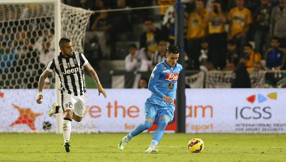 Save the Dream was proud to partner with Aspire Academy and the Qatar Football Association to spread the message of pure sport at the Italian Supercup finals between Juventus and SSC Napoli, held in Doha on December 22nd, 2014. Bianconeri's Arturo Vidal (left) and Azzurri's José Callejón (right).